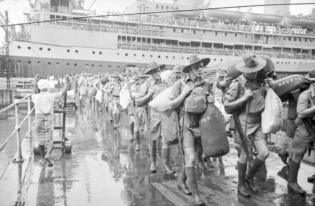 Singapore, Malaya, 15 August 1941. Members of 'C' Company, 2/30th Battalion disembark from Johan Van Oldenbarnevelt (HMT FF), part of Convoy US11B. First row - nearest to camera: 1) NX41357 - CAMERON, Alan Rentoul, Lt. - C Company, O/C 15 Platoon 2) NX2712 - WEBBER, Harry George, L/Cpl. - C Company, 15 Platoon (with pack on left shoulder) 3) NX2538 - JOHNSTON, Ronald Athol (Ron), Cpl. - C Company, 14 Platoon .